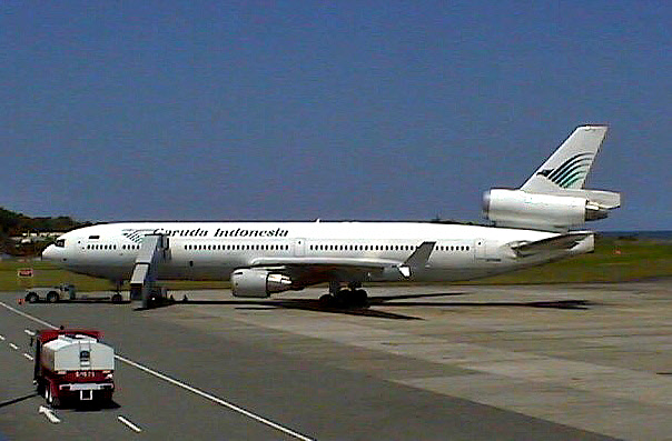 A McDonnell Douglas MD-11 of Garuda Indonesia. A three engine, medium to long range, widebody, jet airliner.